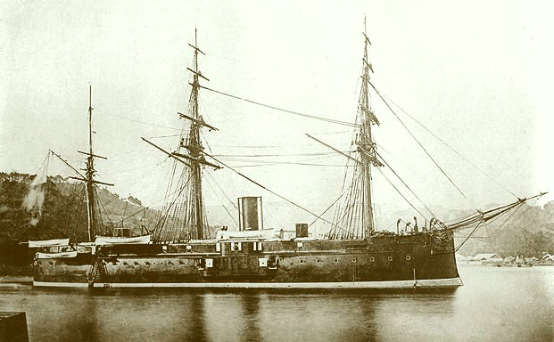 Japanese ironclad warship Fuso as originally completed